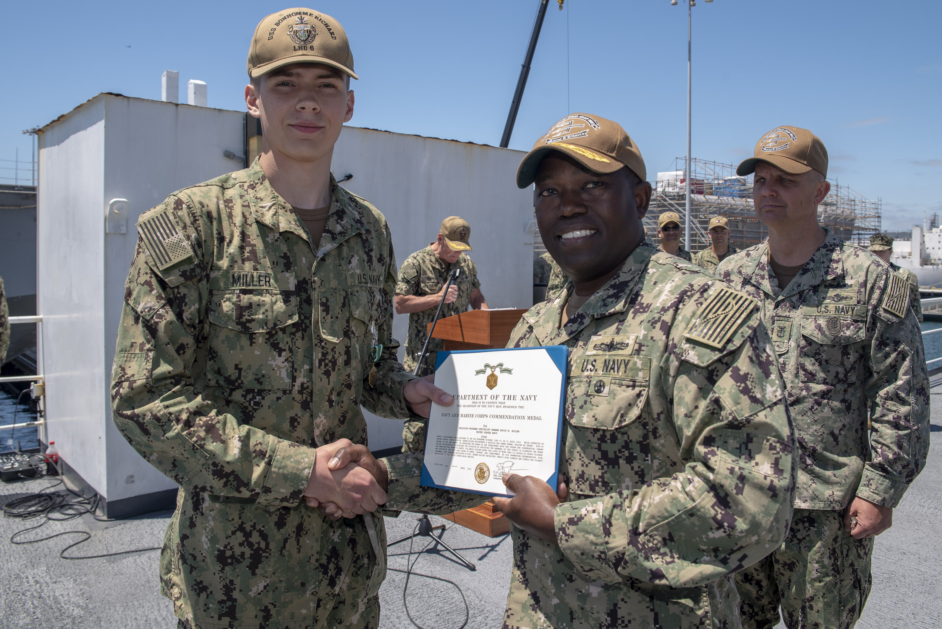 190426-N-DC385-1044 SAN DIEGO (April 26, 2019) Rear Adm. Cedric Pringle, right, Commander, Expeditionary Strike Group (ESG) 3, poses for a photo with Religious Programs Specialist Seaman David Miller, from Salem, N.H., assigned to the amphibious assault ship USS Bonhomme Richard (LHD 6), during an awards ceremony on the roof of the barge assigned to Bonhomme Richard. Miller was awarded for his efforts in apprehending a woman threatening a church congregation on April 20, 2019. Bonhomme Richard is in its homeport of San Diego. (U.S. Navy photo by Mass Communication Specialist Seaman Cosmo Walrath)